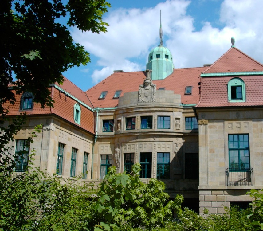 Corpshaus des Corps Saxonia im Jahr 2006